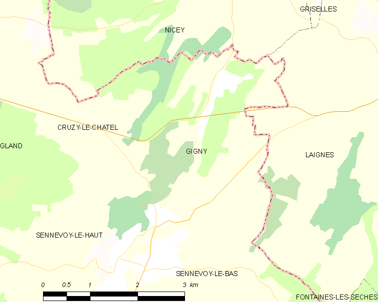 Map of French municipality Gigny